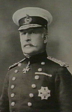 Photograph of Major General Sir Harry Barron KCMG, CVO.